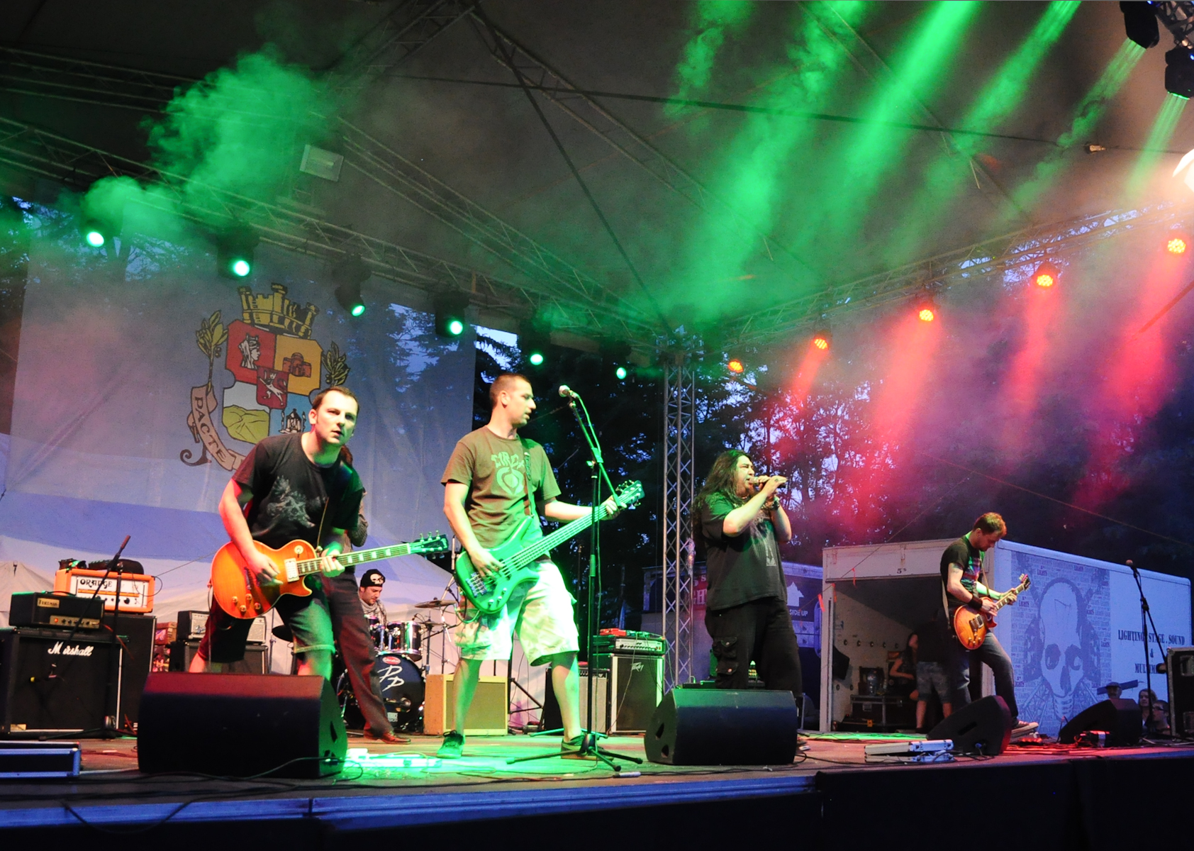 The Bulgarian heavy metal band Analgin at "Flower for Gosho Fest" 2014, South park, Sofia.